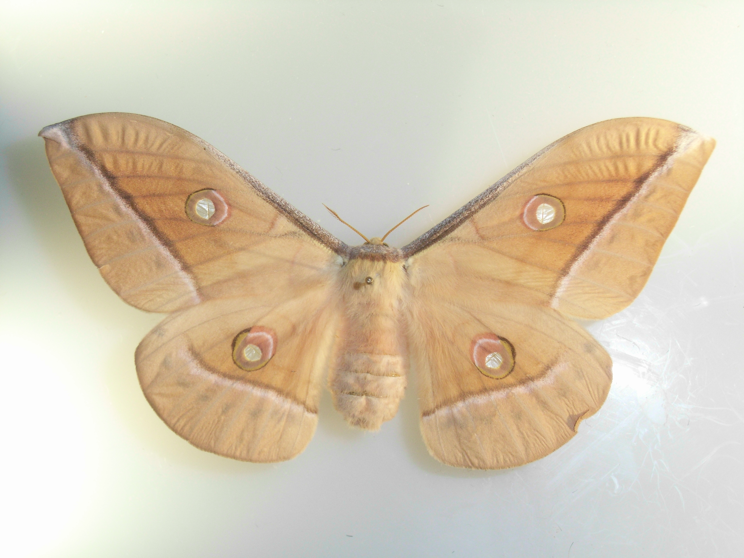 Antheraea godmani (Druce, 1892) Guatemala Ex coll. Felix Stumpe